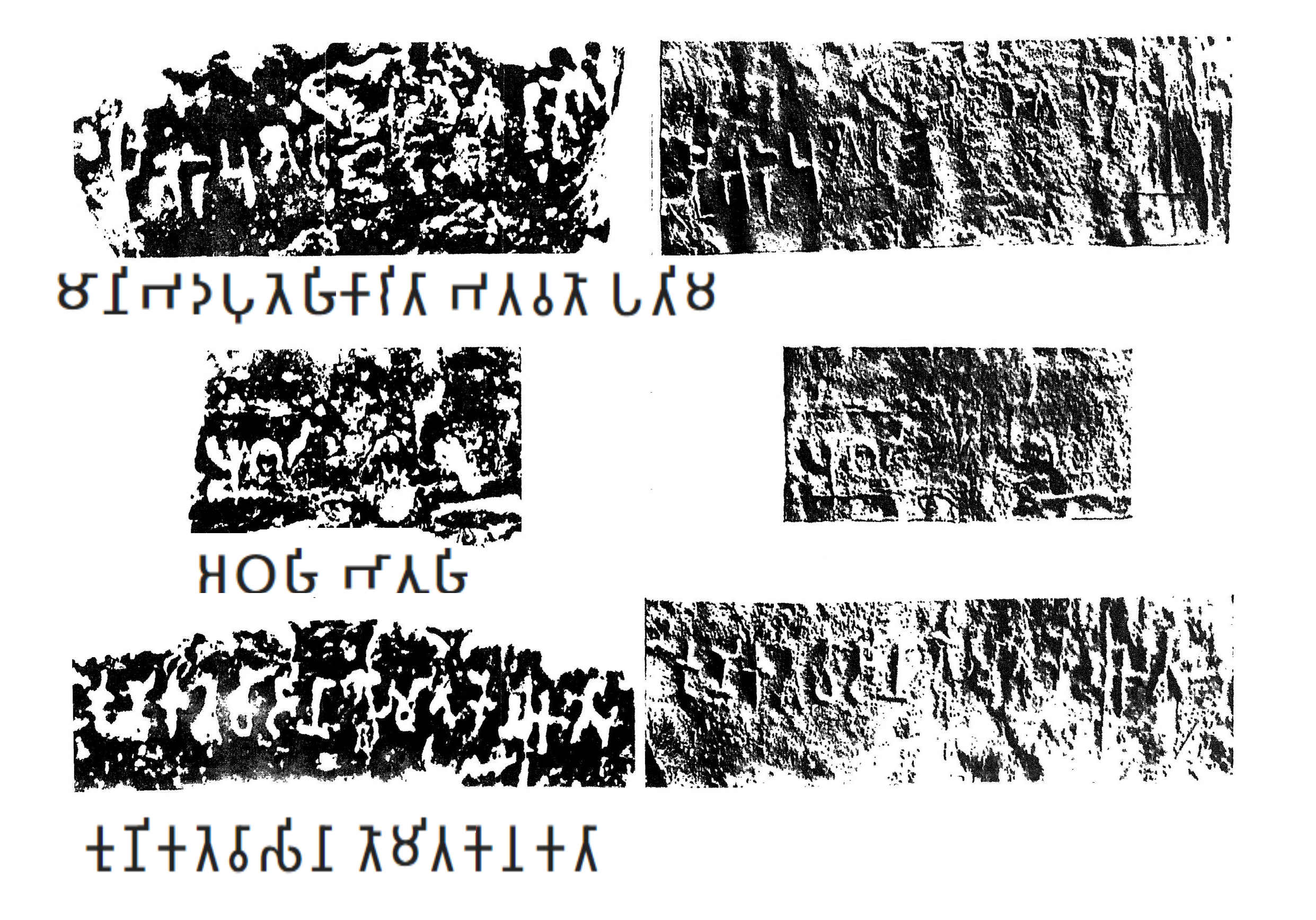 Parkham Yaksha Inscription with transliterations